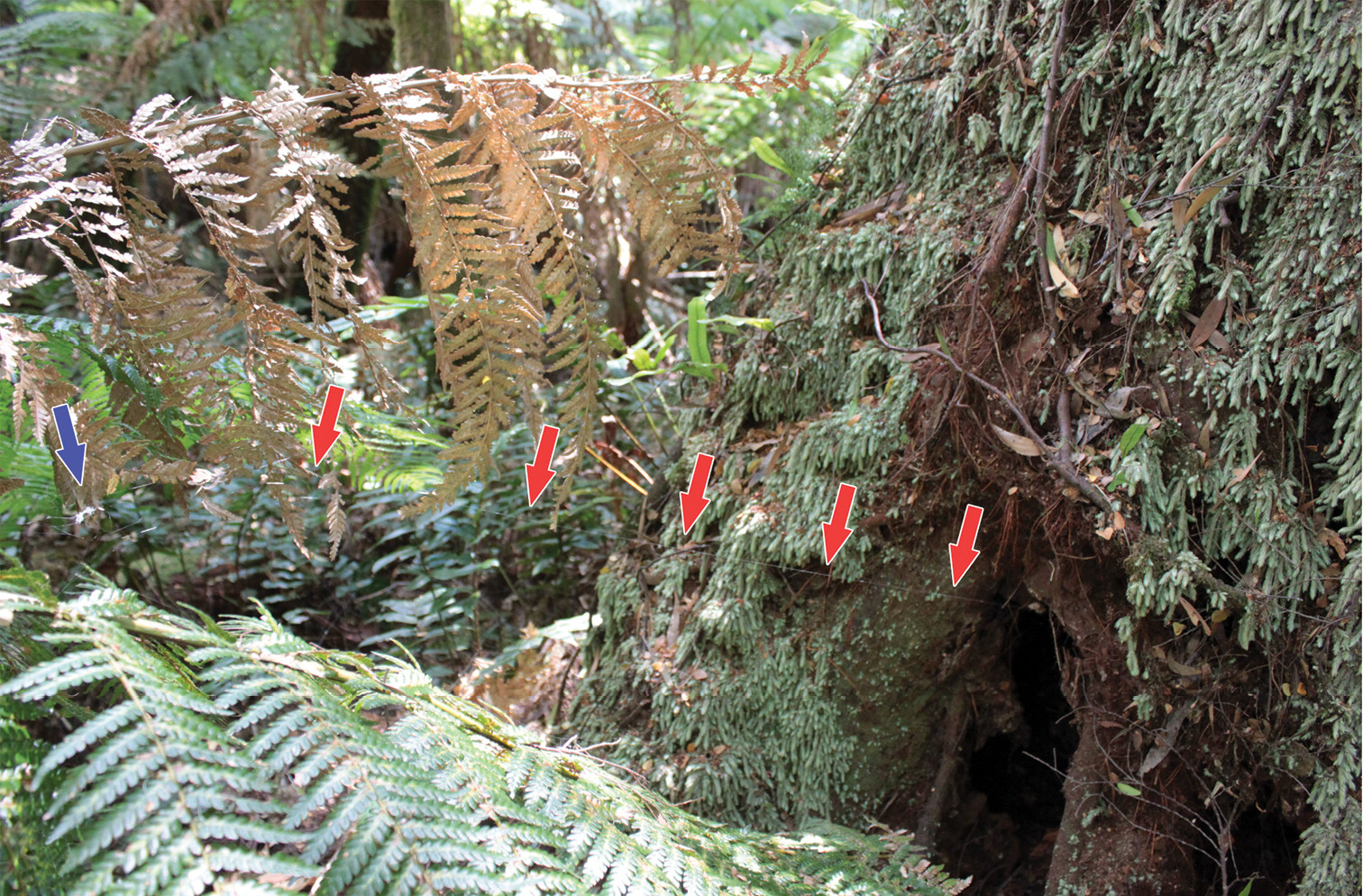 Progradungula otwayensis - Habitat with supporting web (blue arrow) and sturdy thread (red arrows) connecting with the retreat in the hollow